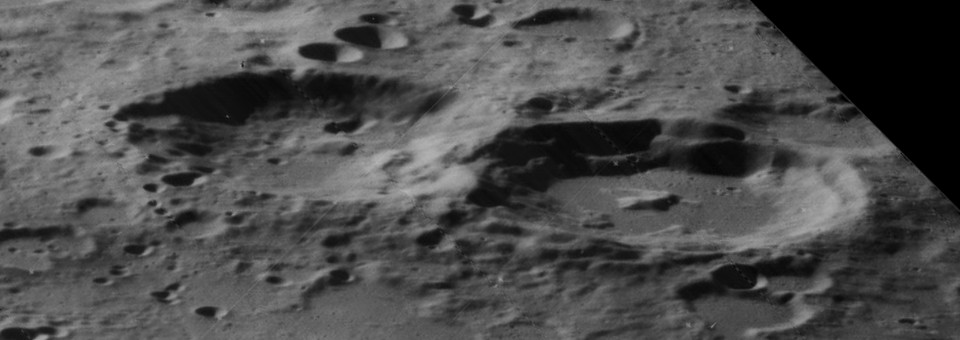 Oblique view of Kramers (left) and Kramers C crater (right), on the far side of the moon, facing west. (Black field in upper right is edge of original photo.)